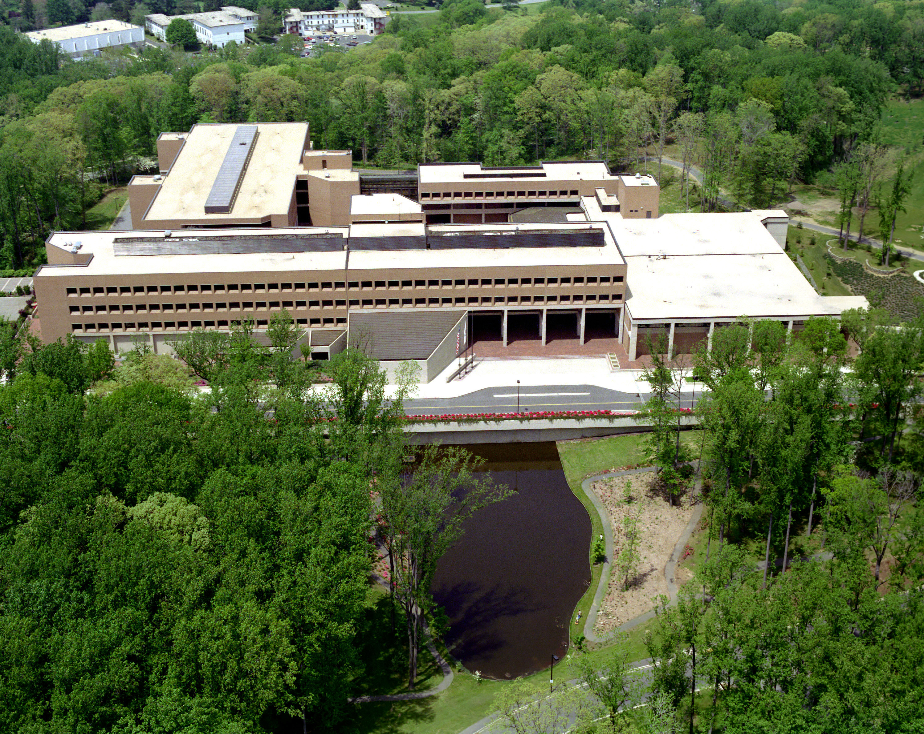 An aerial view of the Uniformed Services University of the Health Sciences in Bethesda, Maryland.